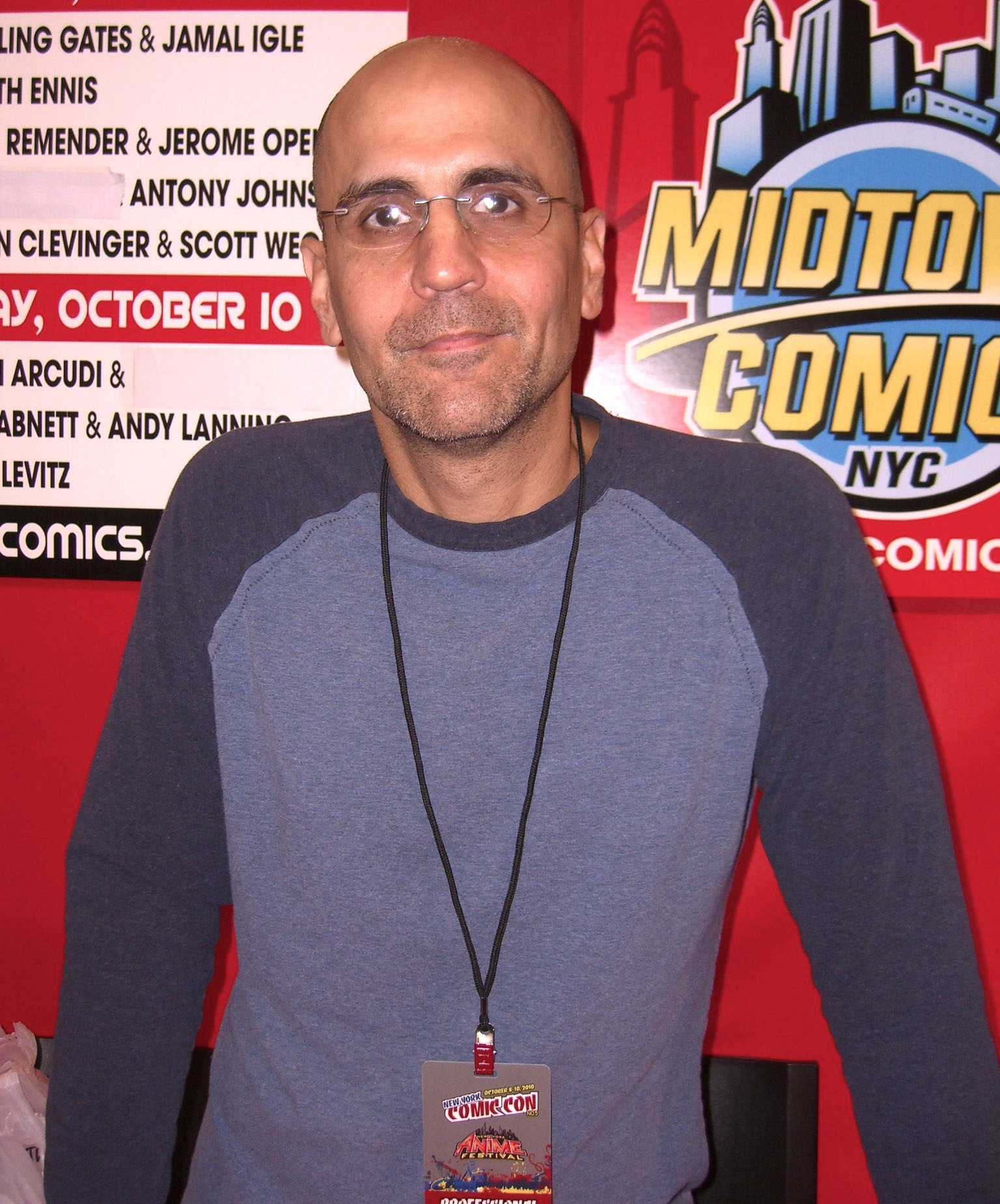 Comic book creator John Arcudi, at the Midtown Comics booth at the New York Comic Convention in Manhattan, October 10, 2010. Photo by Luigi Novi. This photo may be used, modified and published for any purpose, only if a easily visible credit to the photographer is placed near the photo in each instance in which it is used. (See licensing information below.) Publication of this photo without this proper attribution constitute copyright infringement. For more information on my photos, you can contact me here.